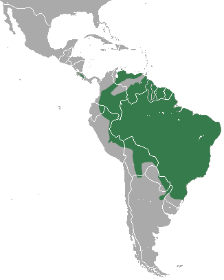 Oncilla (Leopardus tigrinus) range